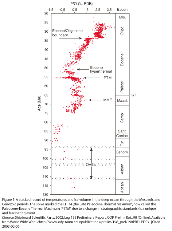 Stacked record of temperatures and ice volume in the deep ocean through the Mesozoic and Cenozoic periods indicated as 18O concentration.